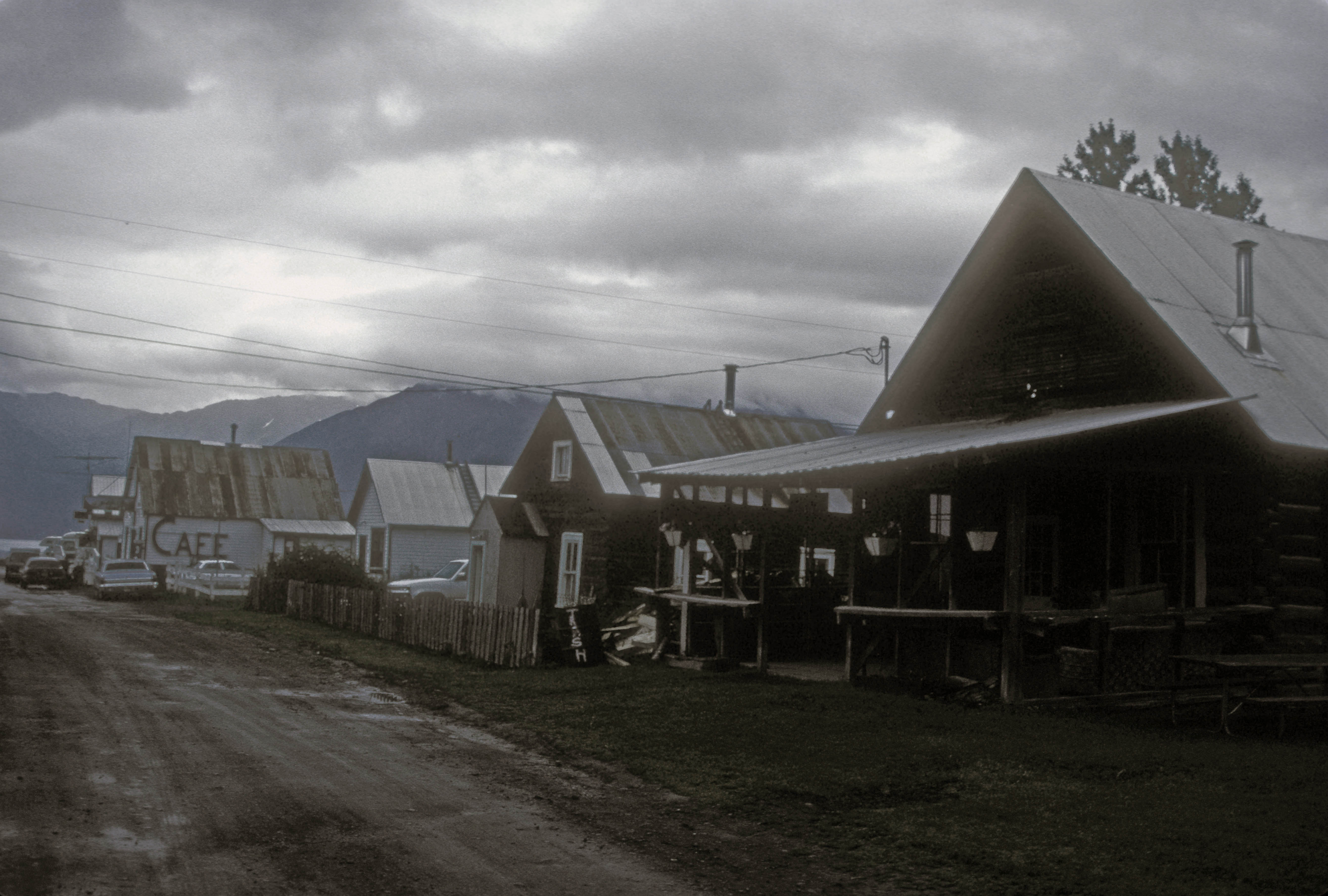 HOPE CITY WAS A MINING CAMP FOR RESURRECTION CREEK, ESTABLISHED IN 1896. AS OF 2000 THERE ARE ONLY 35 FAMILES IN THE TOWN